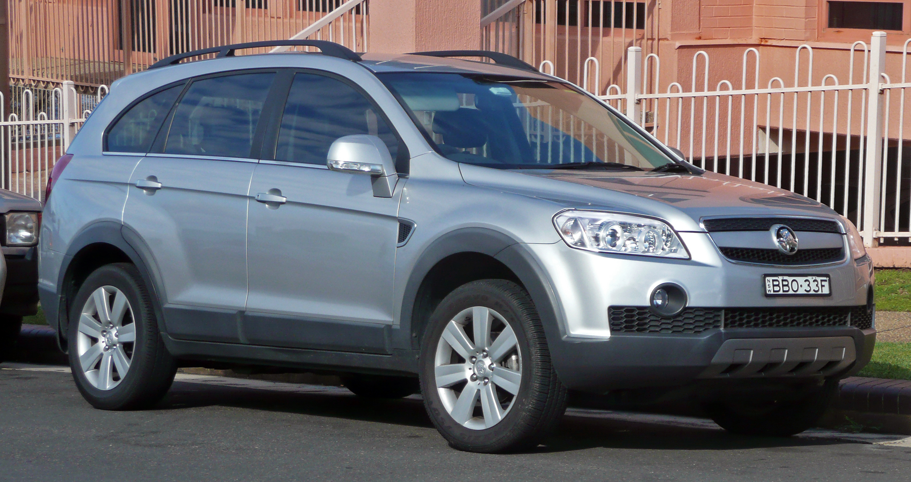 2007 Holden Captiva (CG MY07) LX AWD wagon. Photographed in Cronulla, New South Wales, Australia.